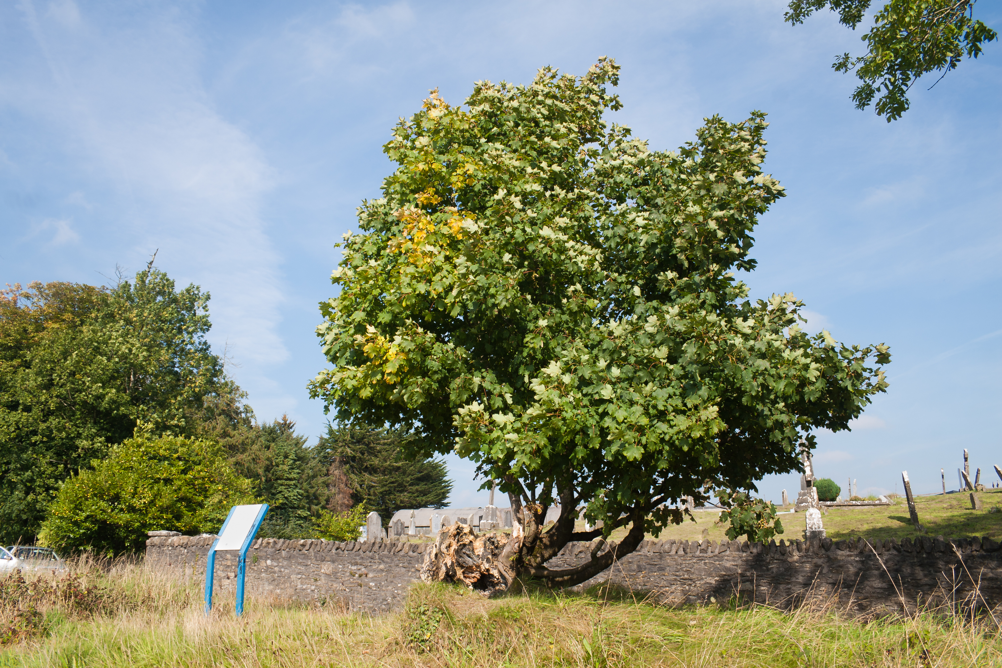 This tree, an acer pseudoplatanus, was planted in the late 18th or early 19th century at the site of the Early Christian monastic site of Clonenagh. The monastery was founded in the 6th century by St. Colum and then left to his disciple St. Fintan when St. Colum moved on to Terryglass. The tree is dedicated to St. Fintan and it became custom to insert coins into the tree from which the tree suffered and was already believed to be dead until the tree started to recover with some new shoots.